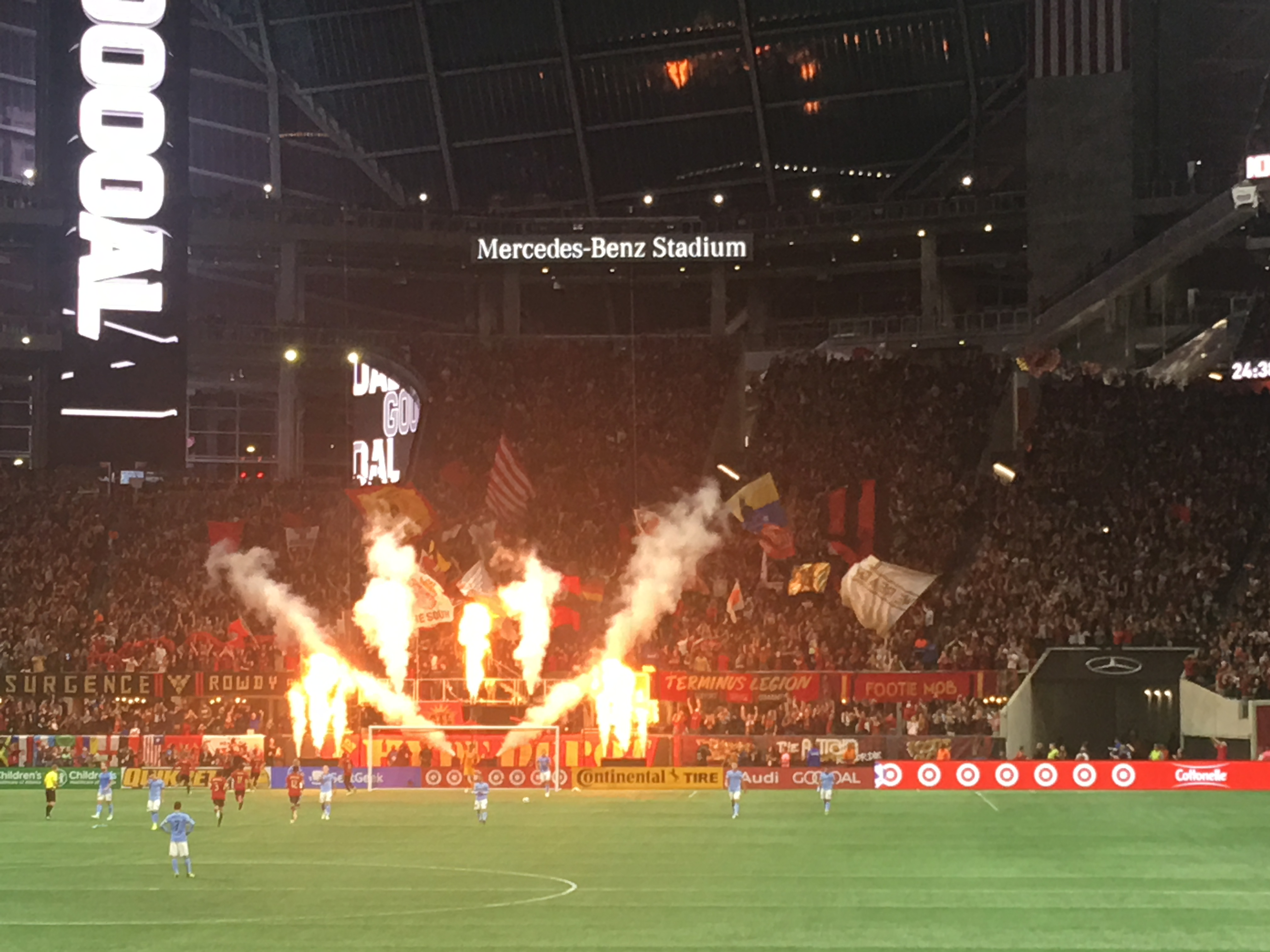 2018-11-11 - Atlanta United vs NYCFC